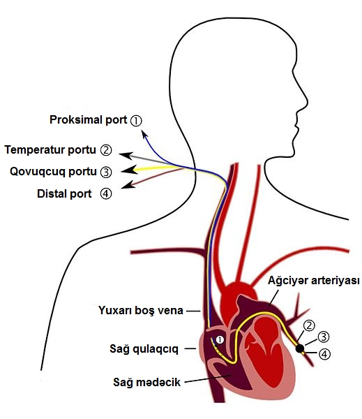 A simple figure descripting pulmonary artery catheter. Drawn with Inkscape 0.43